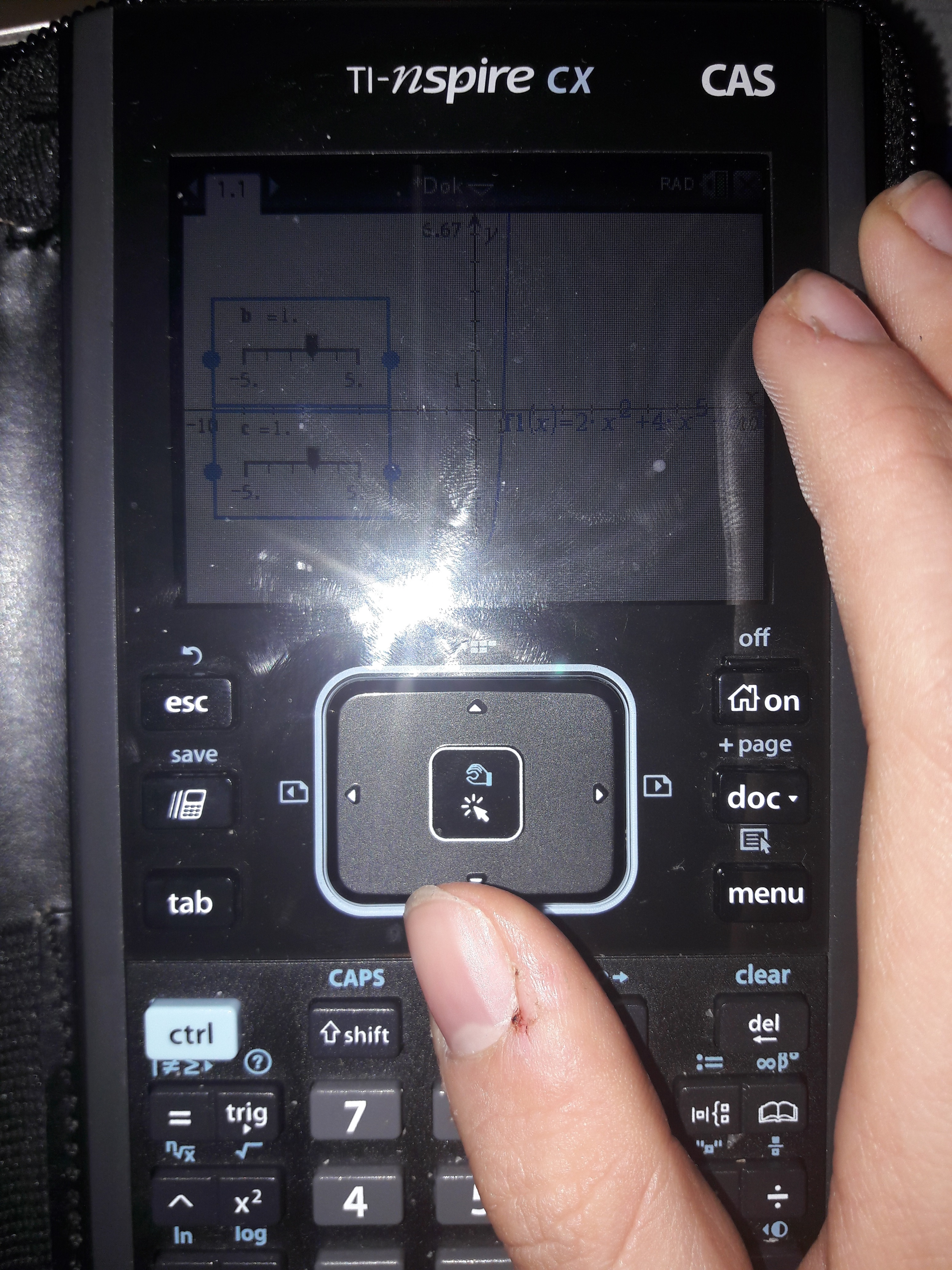 Calculator of Texas Instruments.